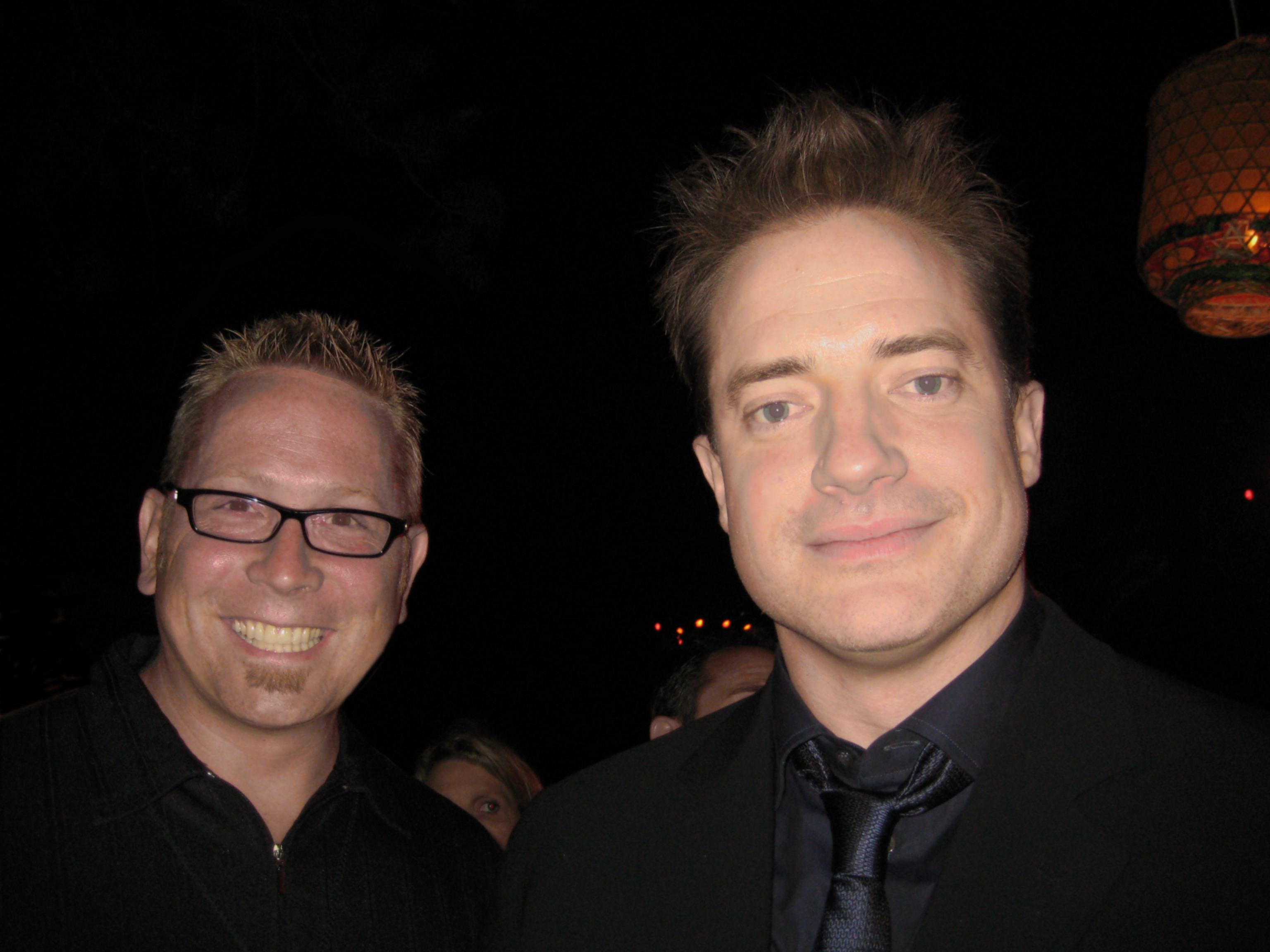 Hollywood producer Van Vandegrift and actor Brendan Fraser at the premiere of The Mummy: Tomb of the Dragon Emperor